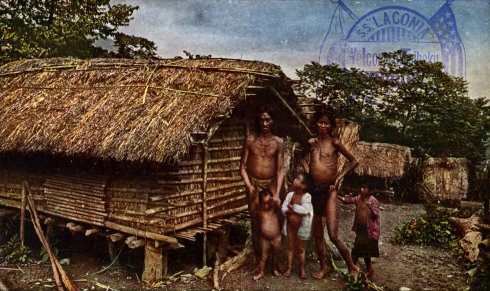 "Savages of Mokka and Thier (sic) House in Formosa"